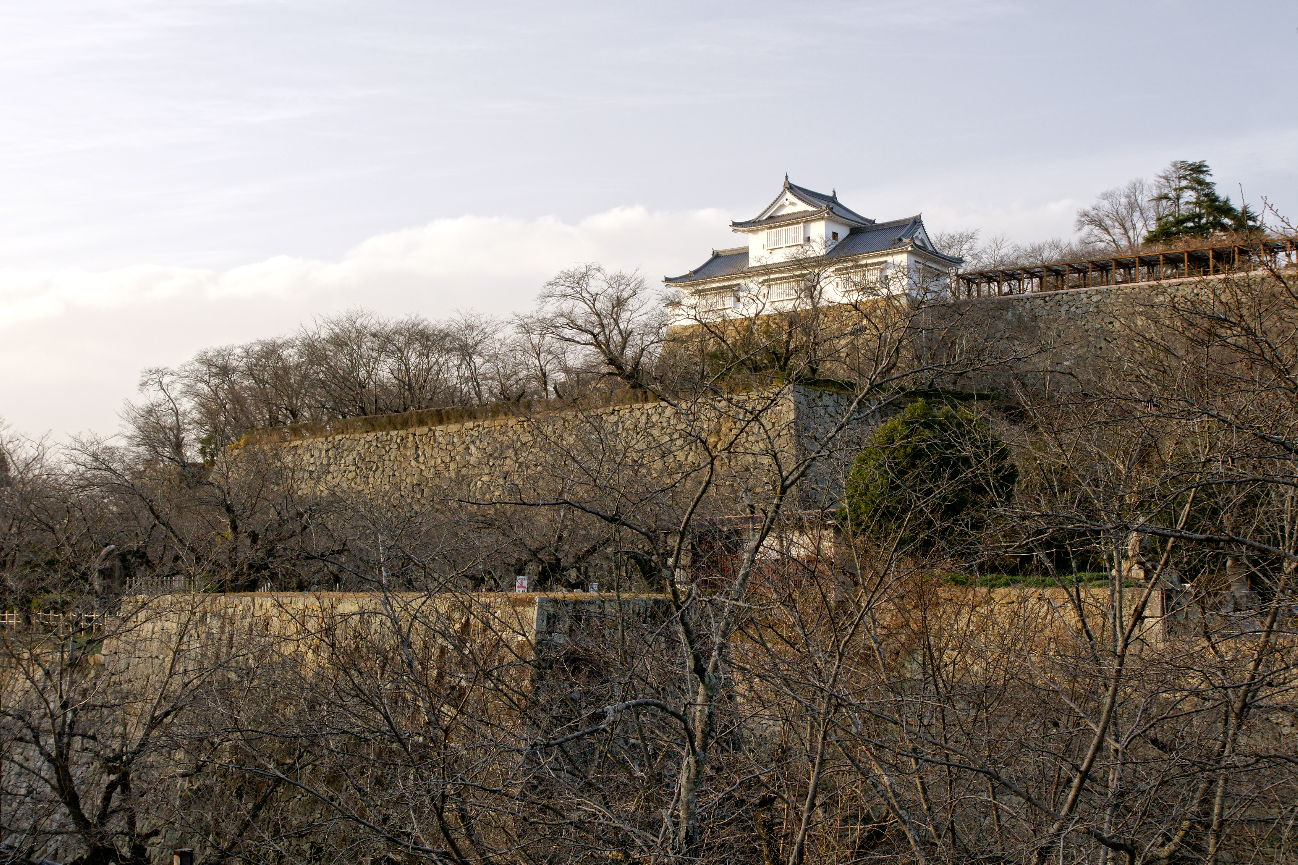 Tsuyama Castle in Tsuyama, Okayama prefecture, Japan.